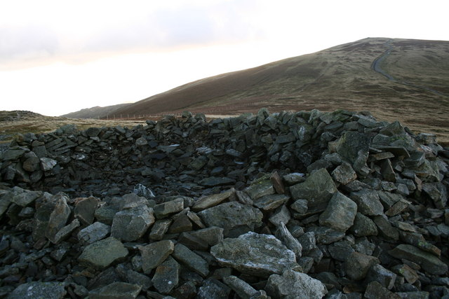 Carnedd y Ddelw summit shelter, 5 km from Llanfairfechan, Conwy, Wales. The summit shelter of Carnedd y Ddelw at 688m above sea level with Drum almost a 100m higher ahead.